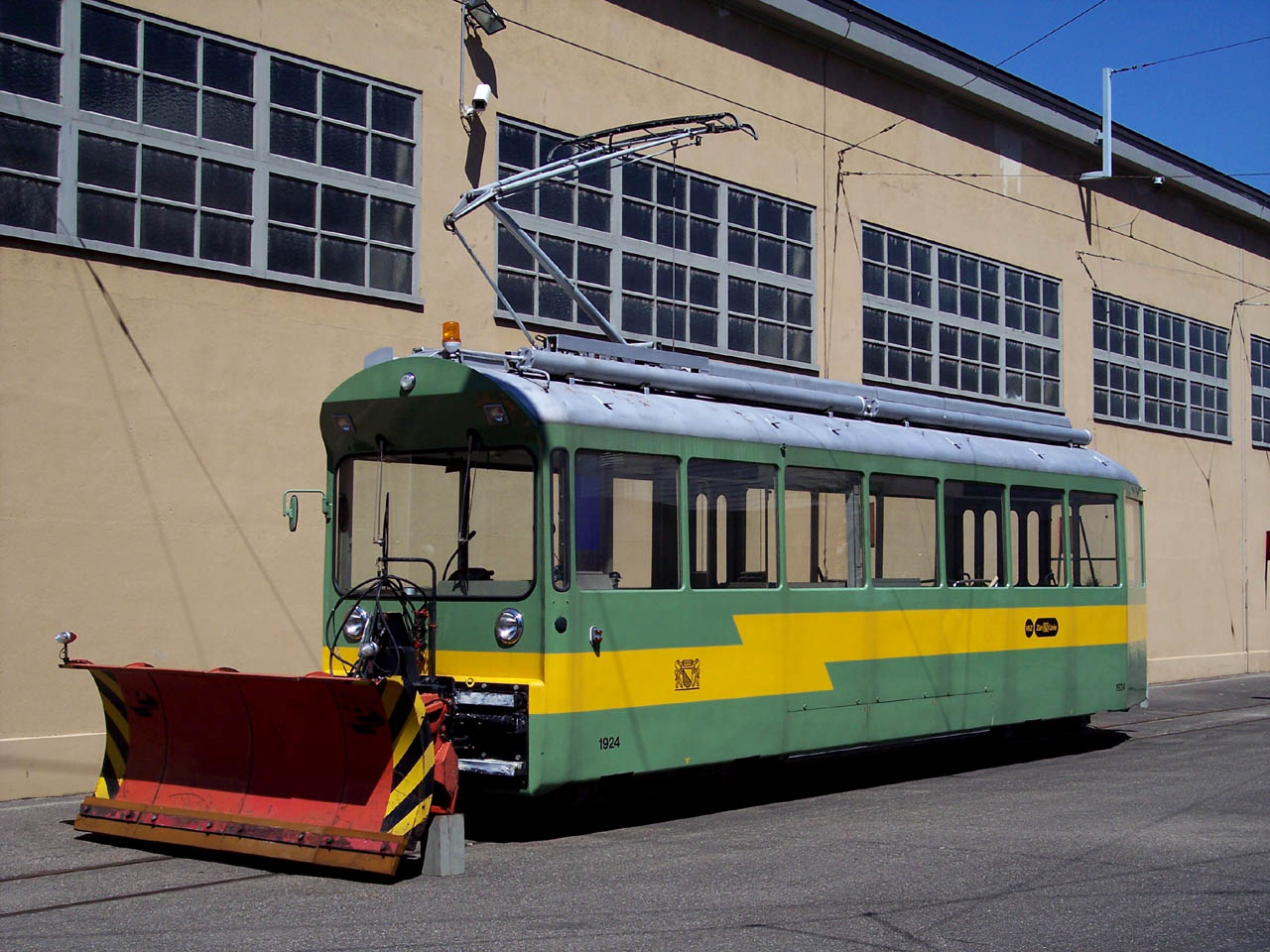 Trams in Zürich: A snow plough (Xe 4/4) waits for the next snowfall in Irchel depot. This car was converted from a Swiss Standard tramcar that had its original front cut off.